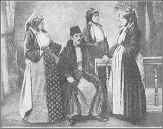 Jews of Salonica XIX century